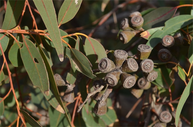 Fruit of Eucalyptus gomphocephala about 20 km north-west of Port Kenny, Eyre Peninsula, South Australia